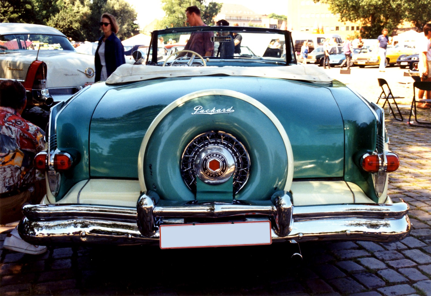 1954 Packard Caribbean Convertible model 5431-5478, at car-show in Hamburg, Germany